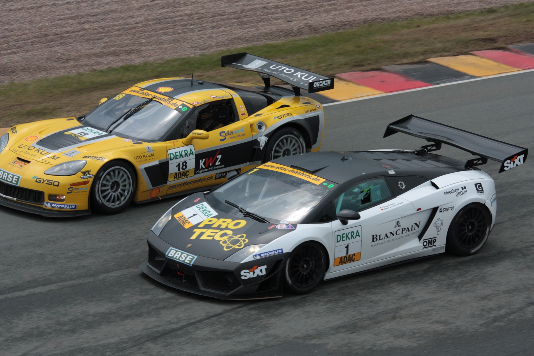 Albert von Thurn & Taxis in a Lamborghini Gallardo LP600+ GT3 overtaking Toni Seiler in a Chevrolet Corvette Z06.R GT3 at the second ADAC GT Masters race on the Sachsenring.